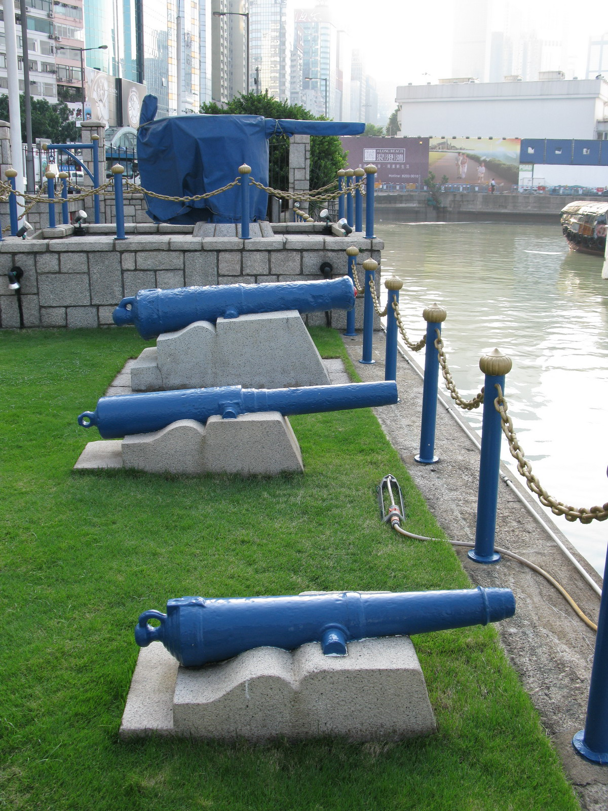 怡和午炮 The Jardines Noonday Gun